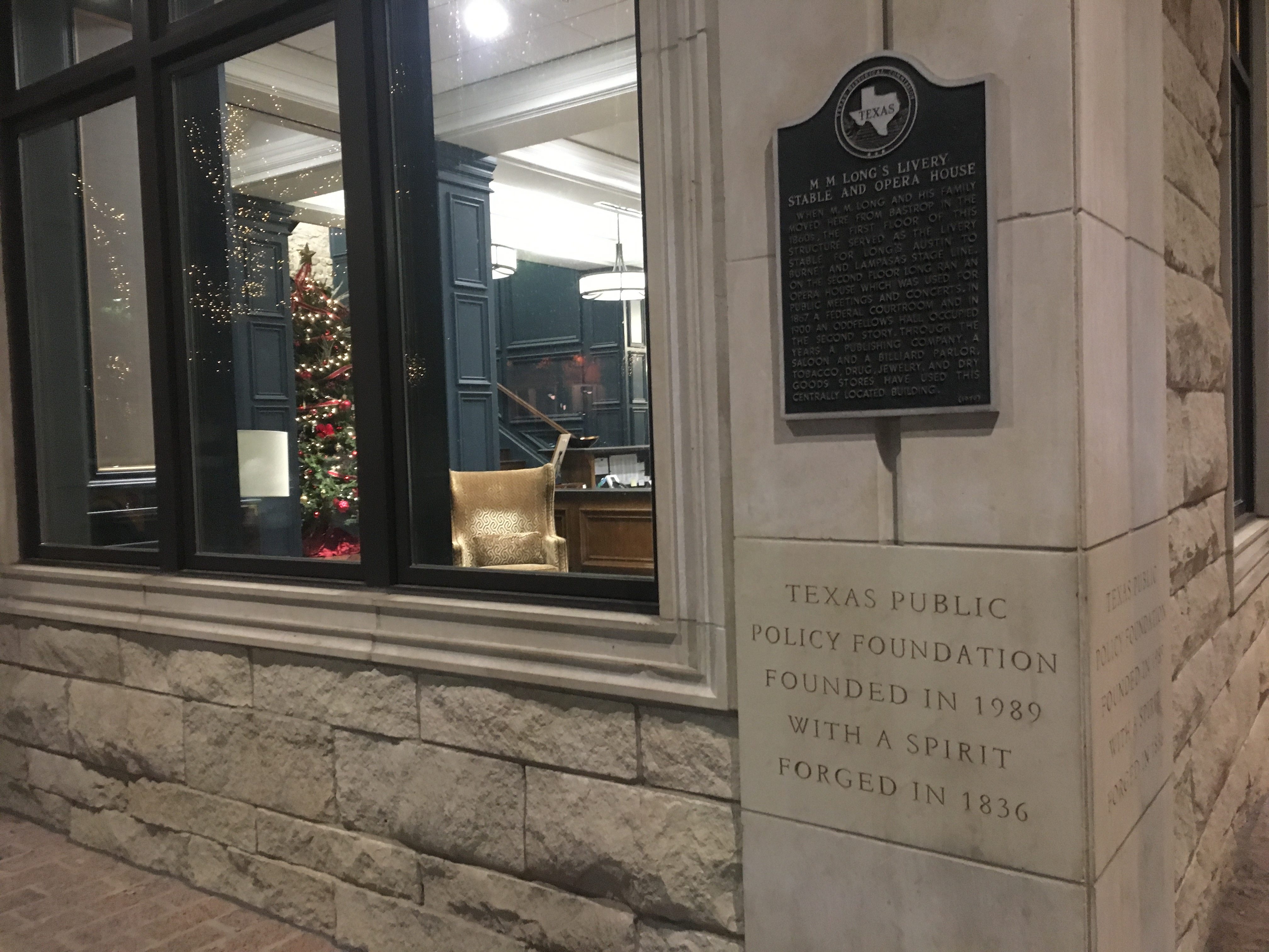 Texas Public Policy Foundation